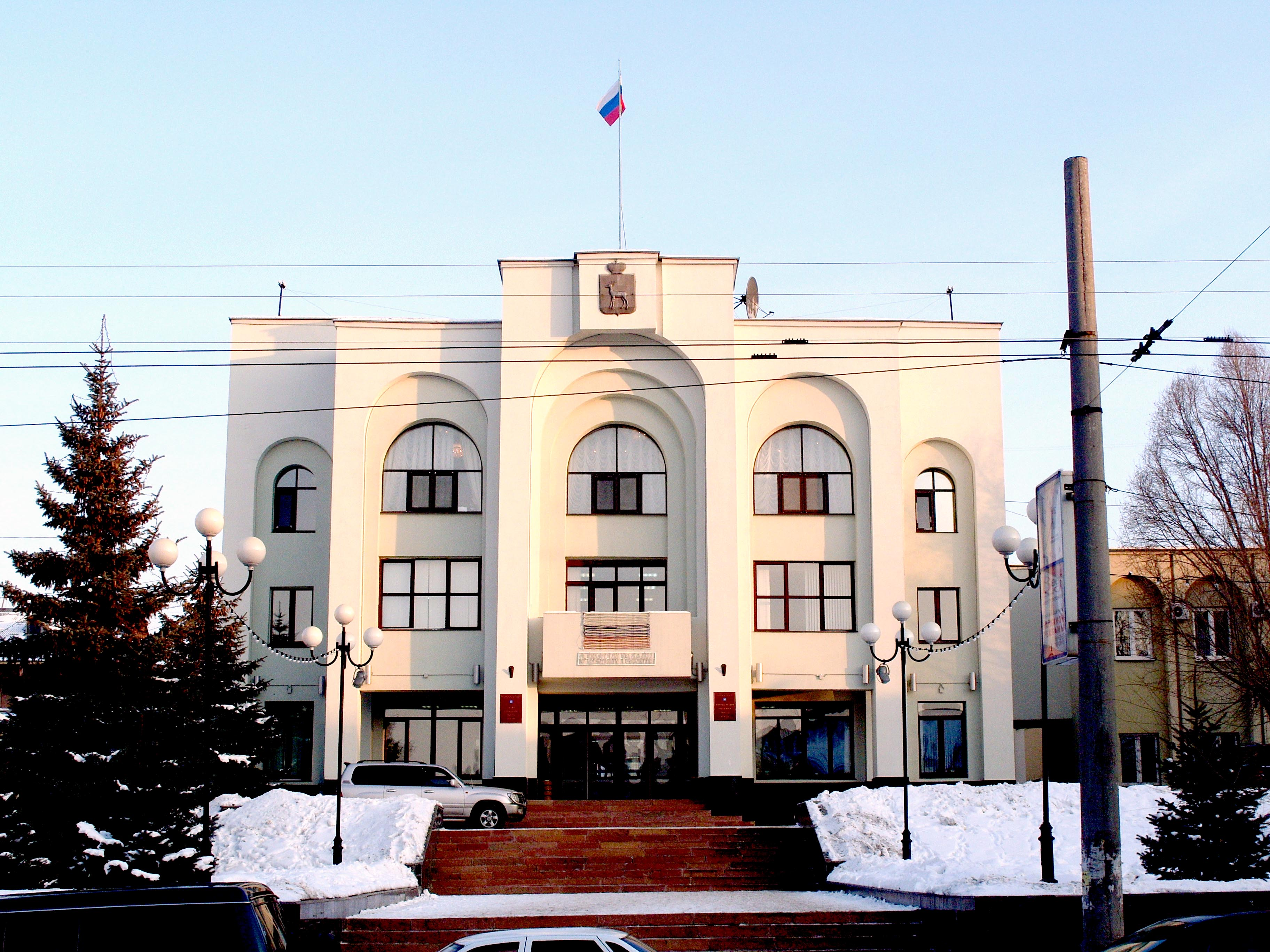 Administration of Samara city